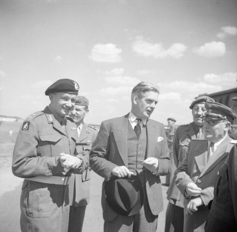 Germany Under Allied Occupation British Foreign Secretary, Anthony Eden, on his arrival at Gatow airfield, Berlin, for the 'Big Three' conference at Potsdam.